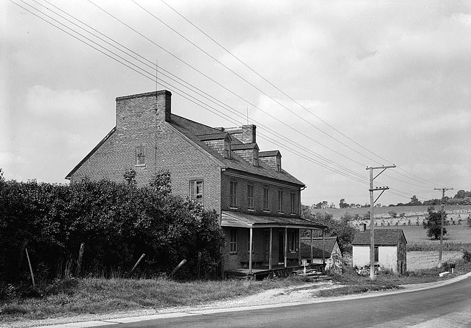 Halfway House or Weisberg Inn, Baltimore County, Maryland, USA